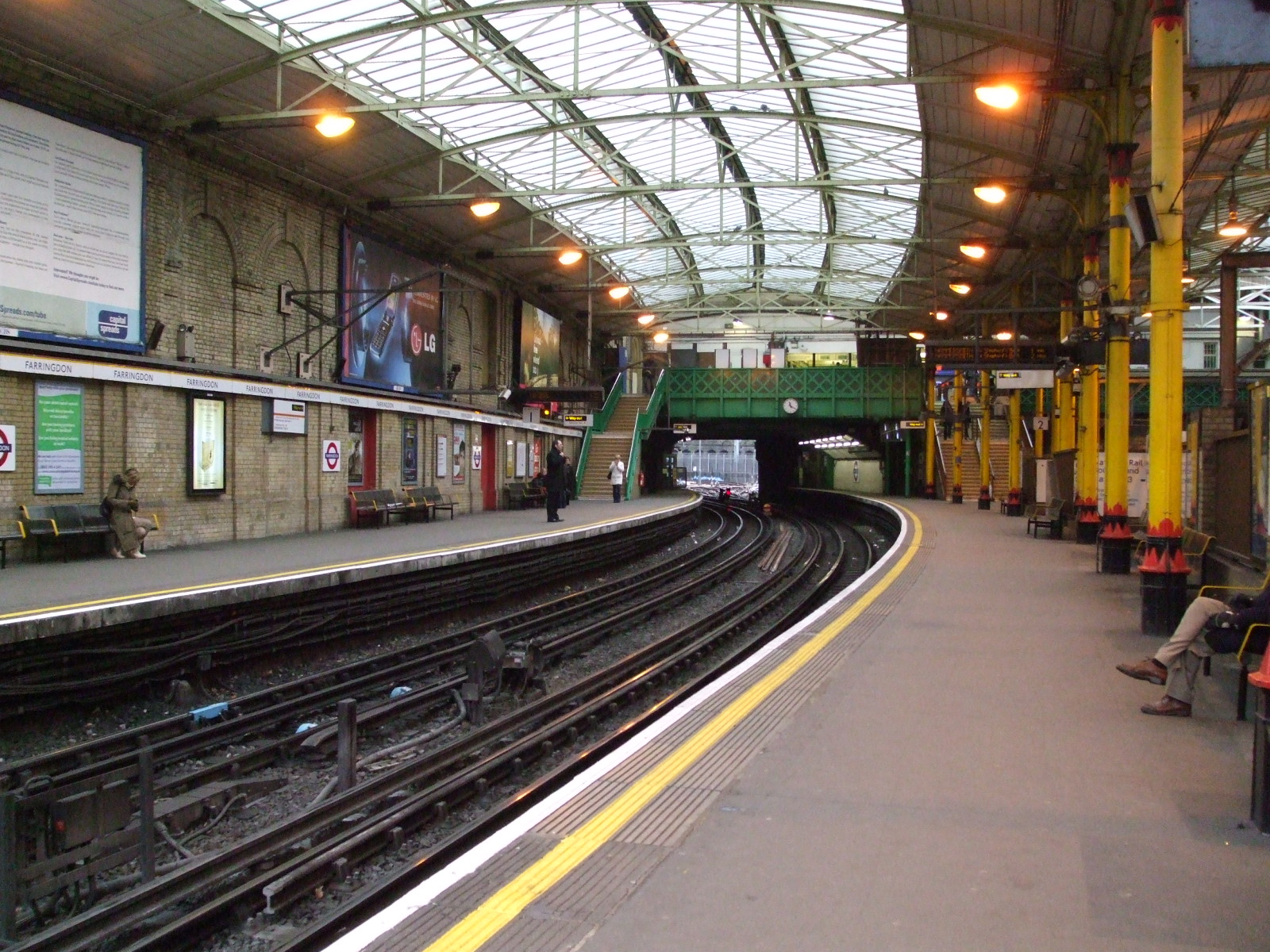 Farringdon tube station Circle/Metropolitan/Hammersmith & City line platforms looking clockwise